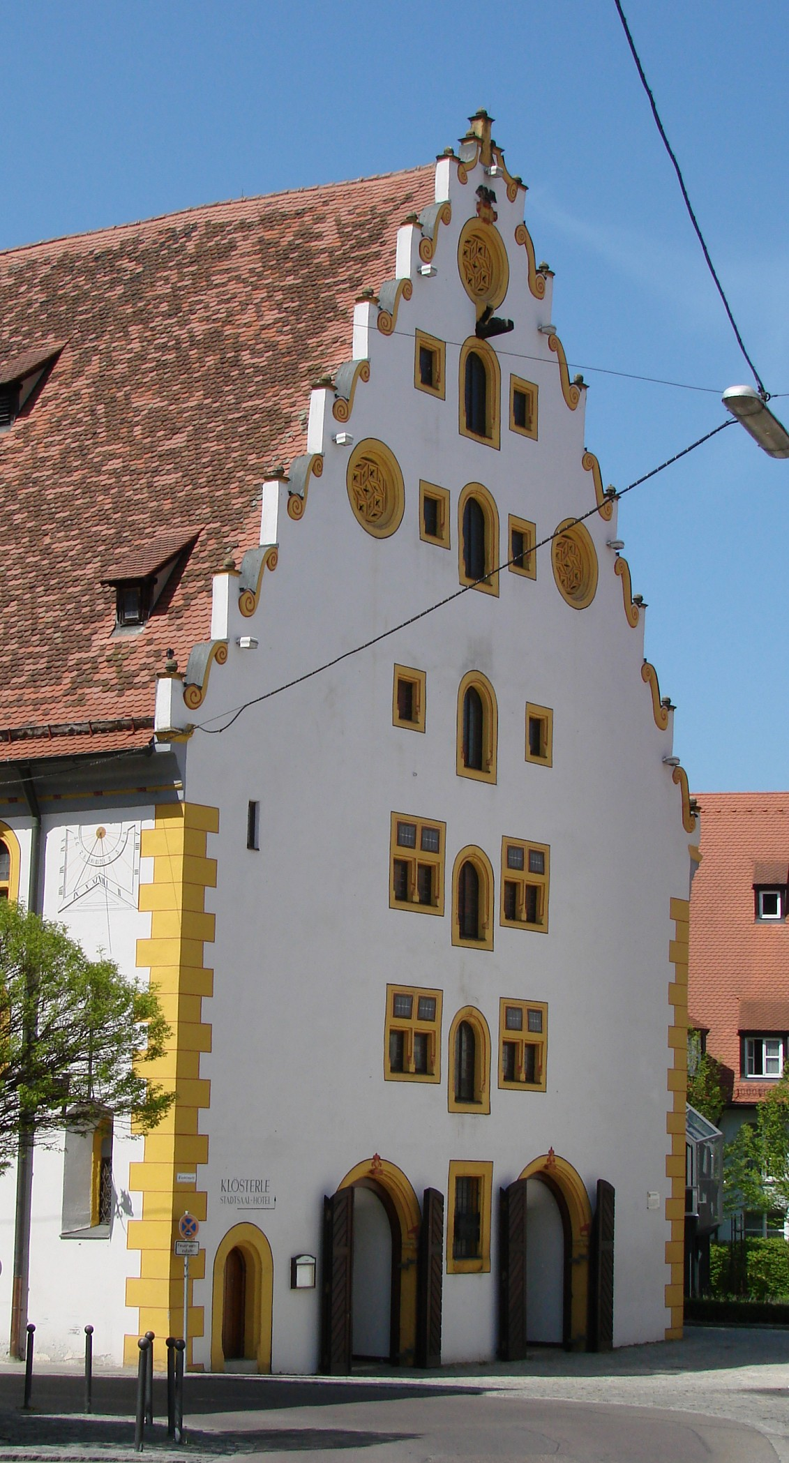 Nördlingen, Germany, Klösterle, former monastery, then reconstructed as a crop storage house 1584 - 1587